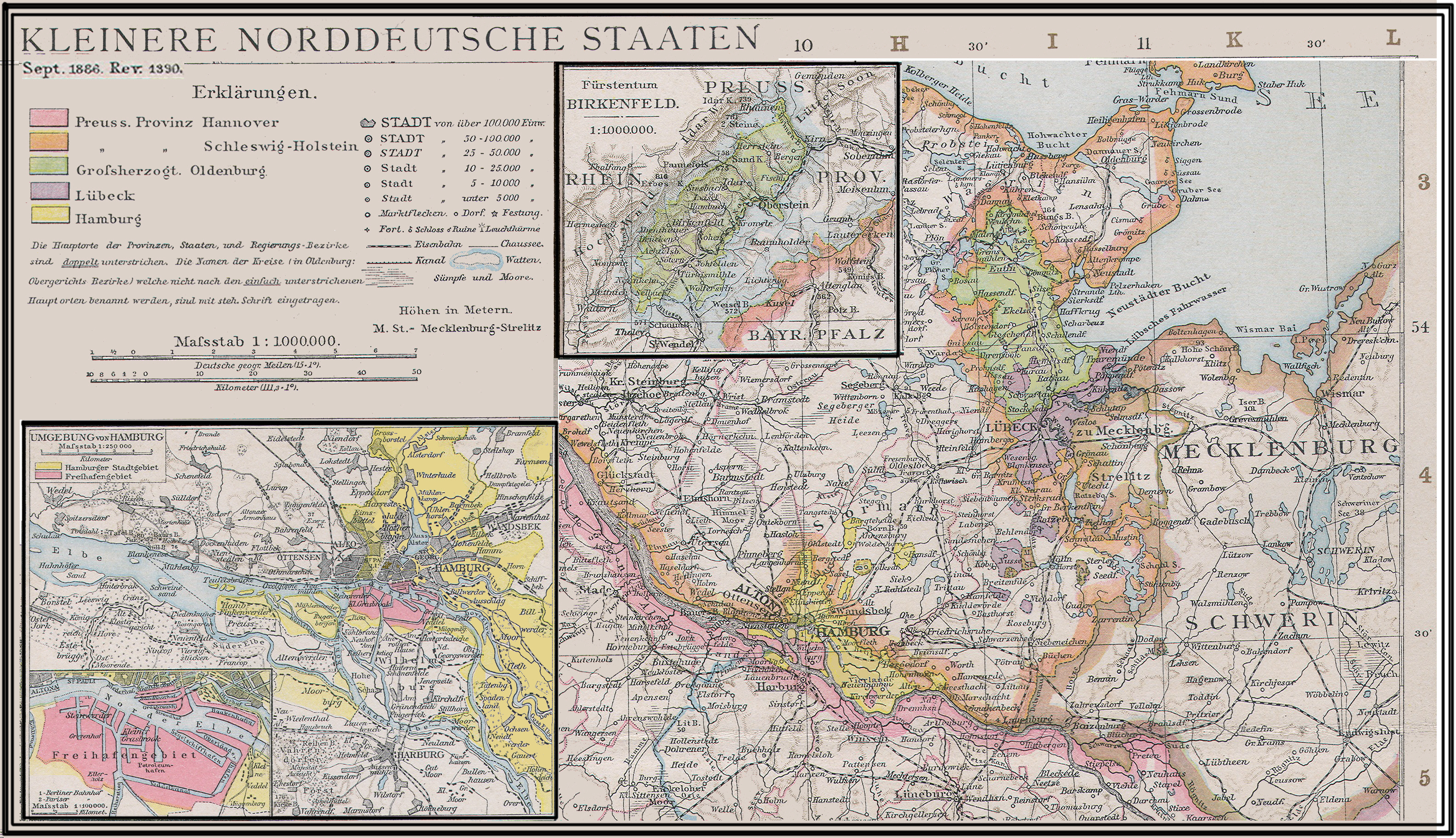 map of borderlines of Schleswig-Holstein (east), Hamburg, Mecklenburg (west) and small north-german states in 1890